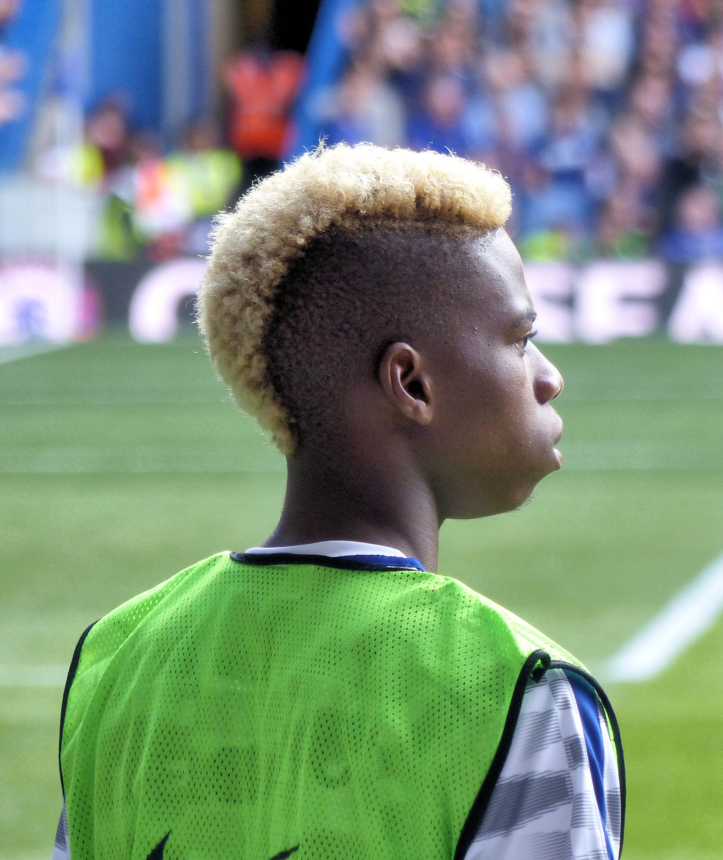 Chelsea F.C.'s Charly Musonda waits to come on against Burnley at Stamford Bridge, August 2017